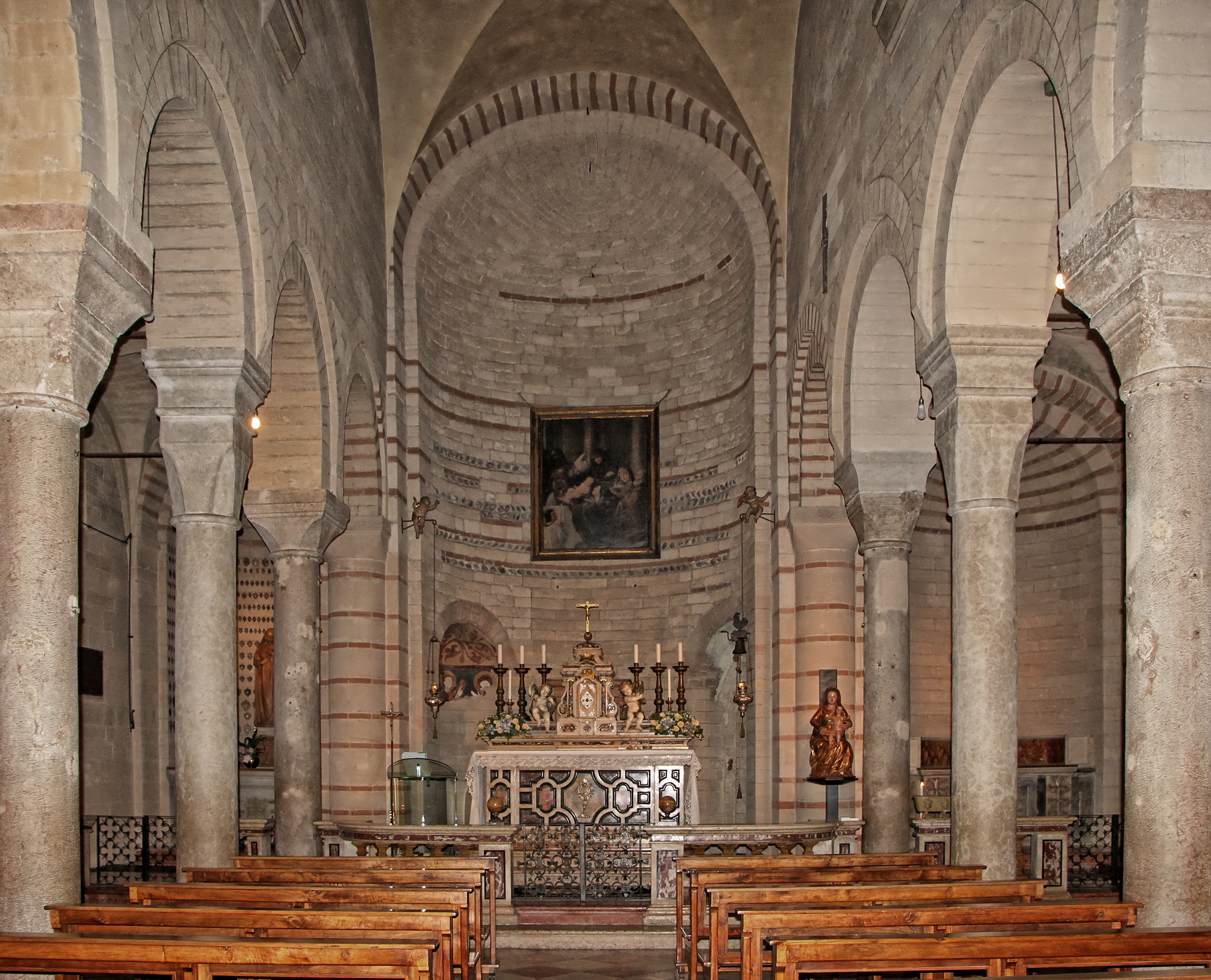 Chiesa di Santa Maria Antica, Verona, Italy. The church was built in 1185 in Romanesque style.